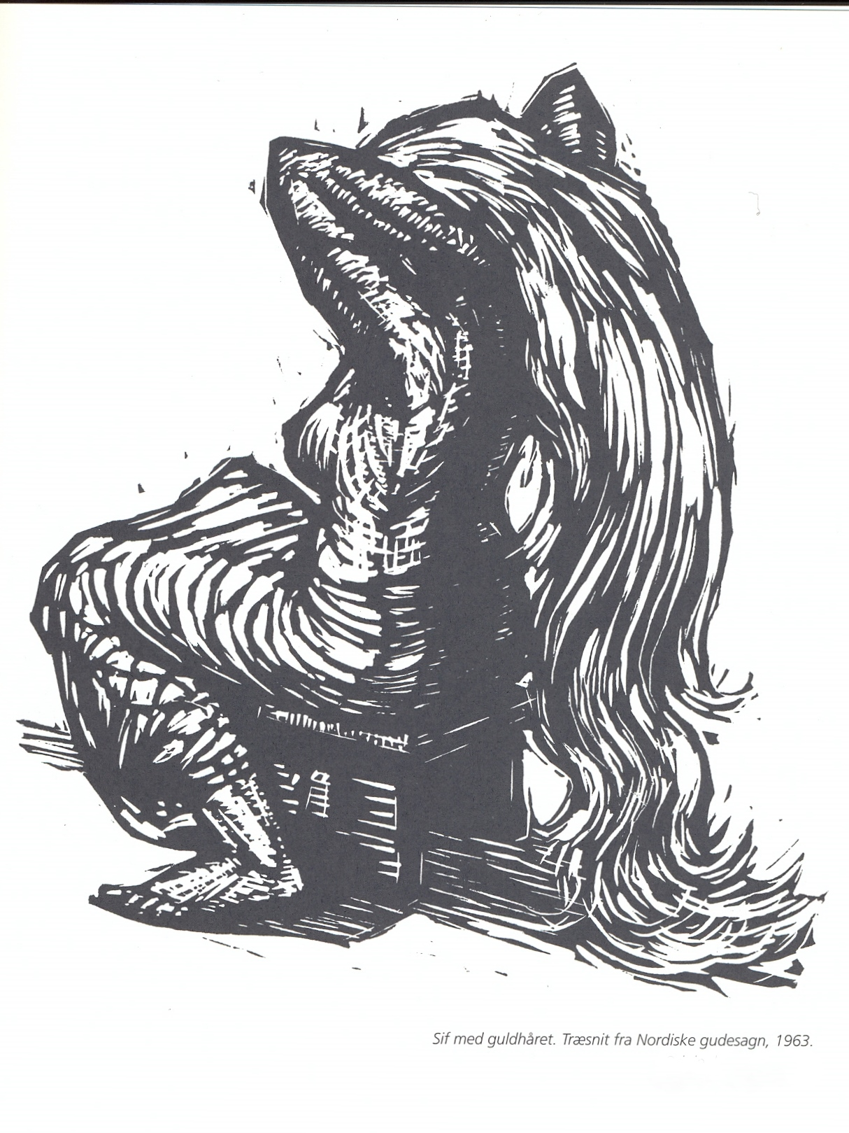 Tegning "Sif med guldhåret" af Thormod Kidde